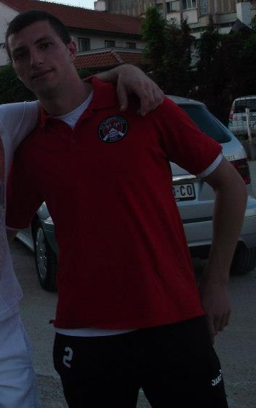 Pejovic in 2013